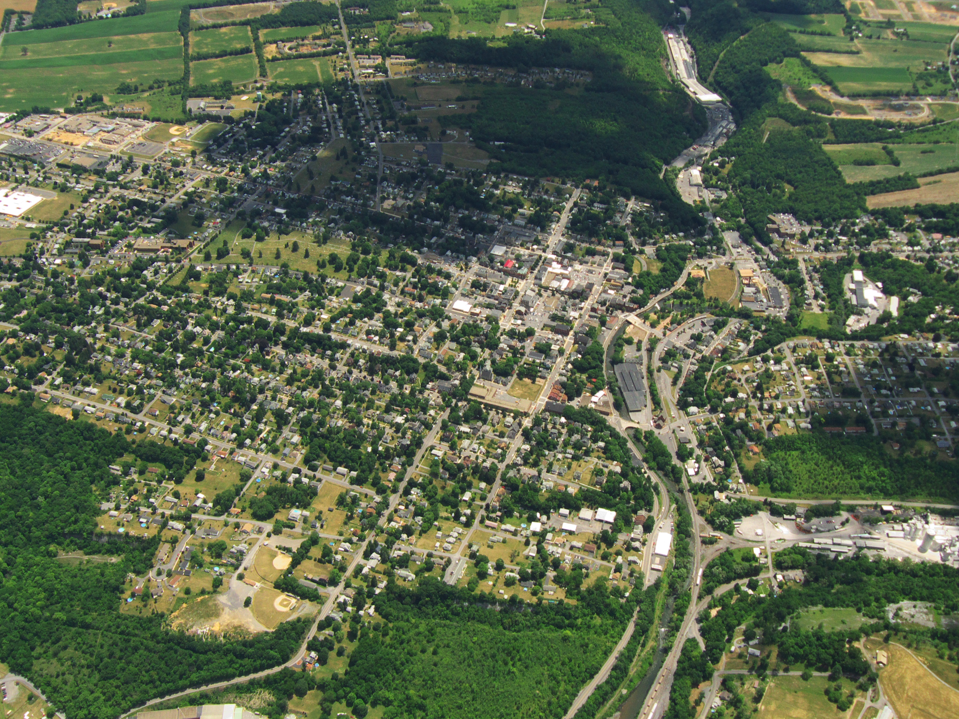 An aerial photo of Bellefonte, Pennsylvania, USA. Looking southeast taken from a glider on July 1, 2007 by me.